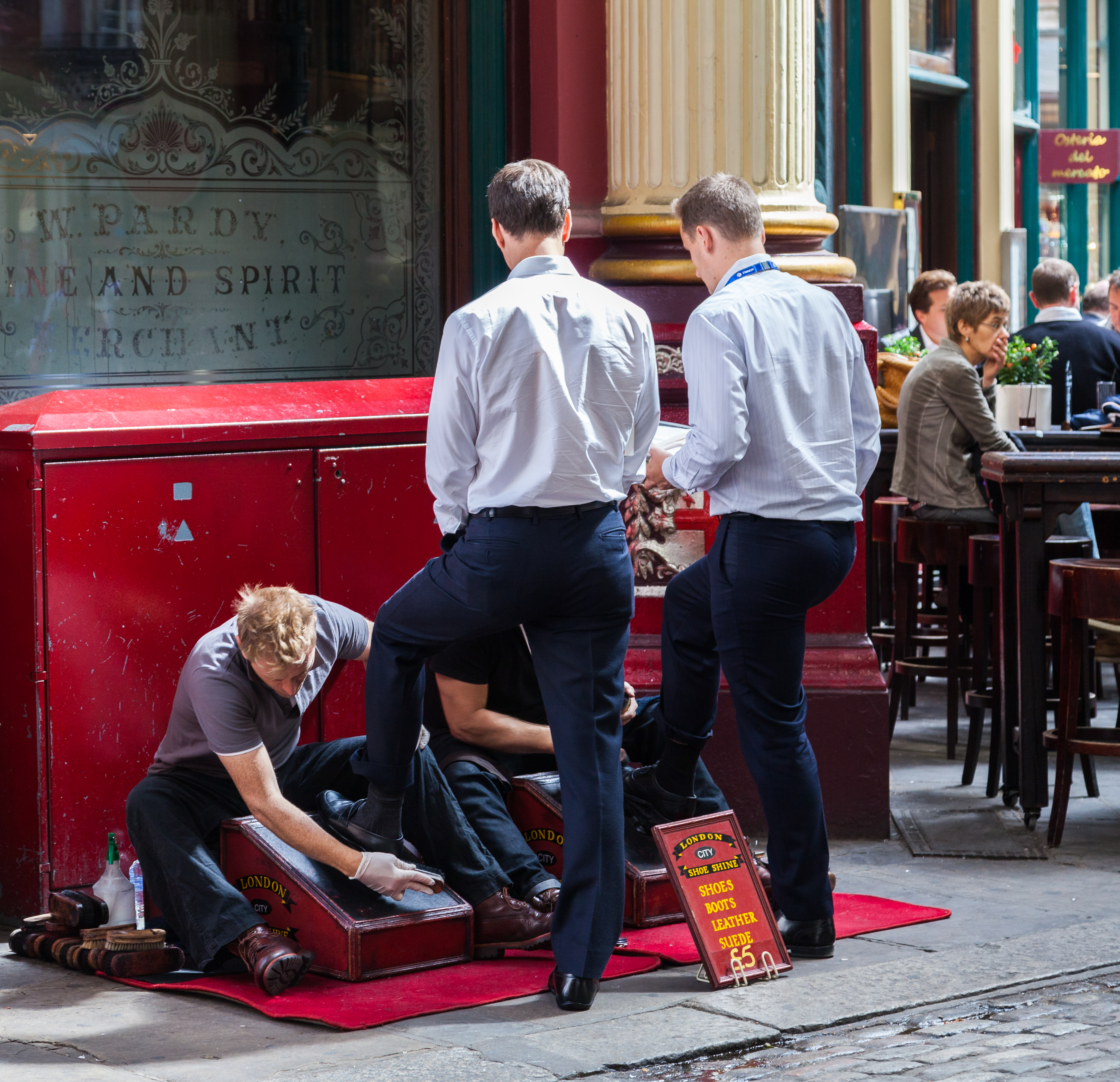 Limpiabotas, Mercado Leadenhall, London, England